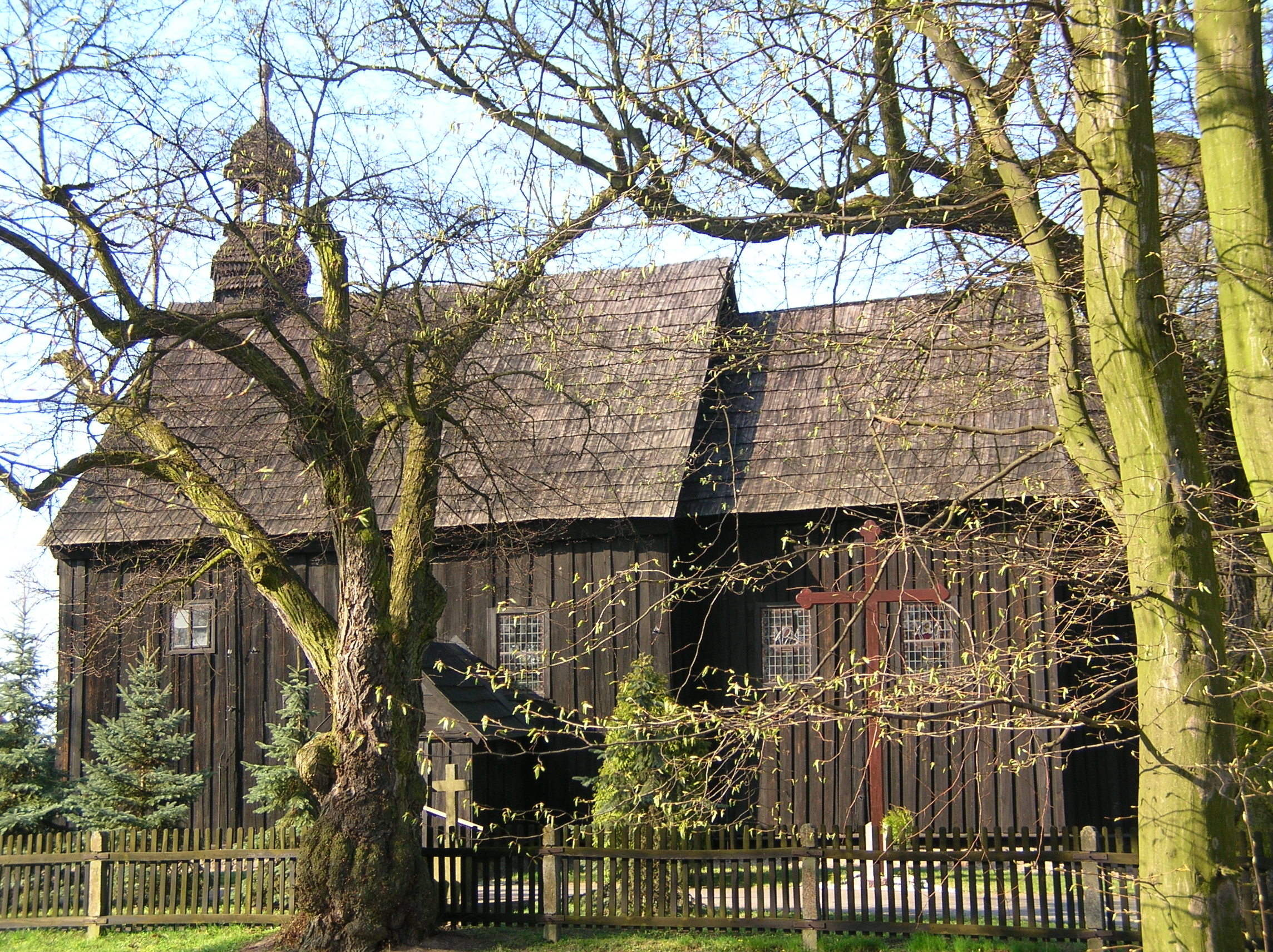 Wooden church in Ryszewko